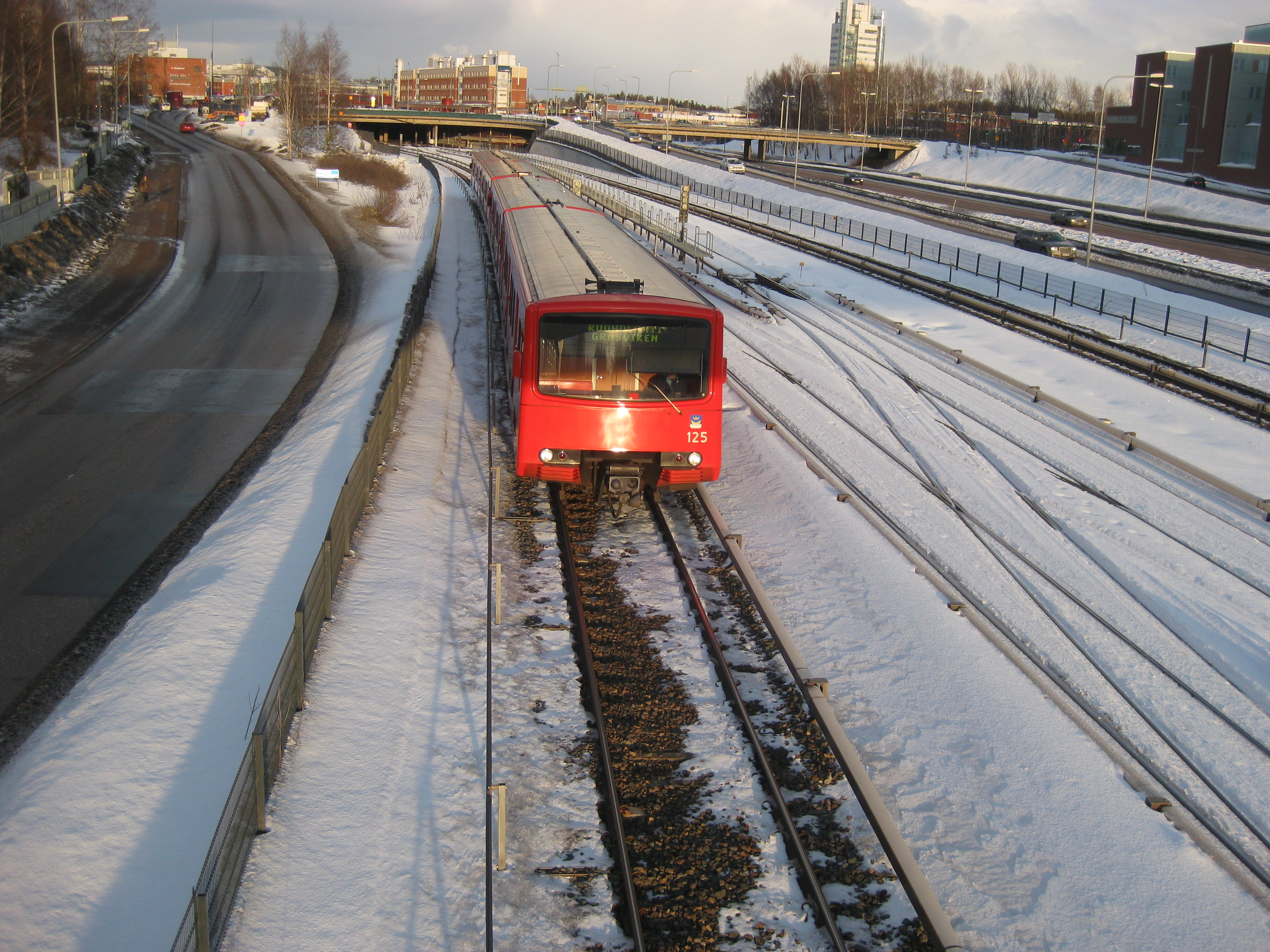 M100 train which belongs to Helsinki Metro between the stations Itäkeskus and Siilitie